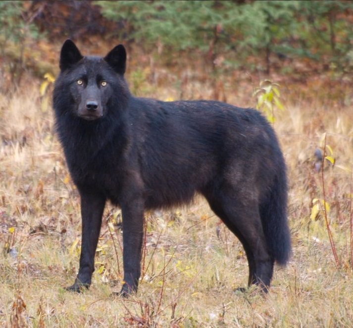 Black Wolf (Canis lupus) who is making Lower Post part of his territory.